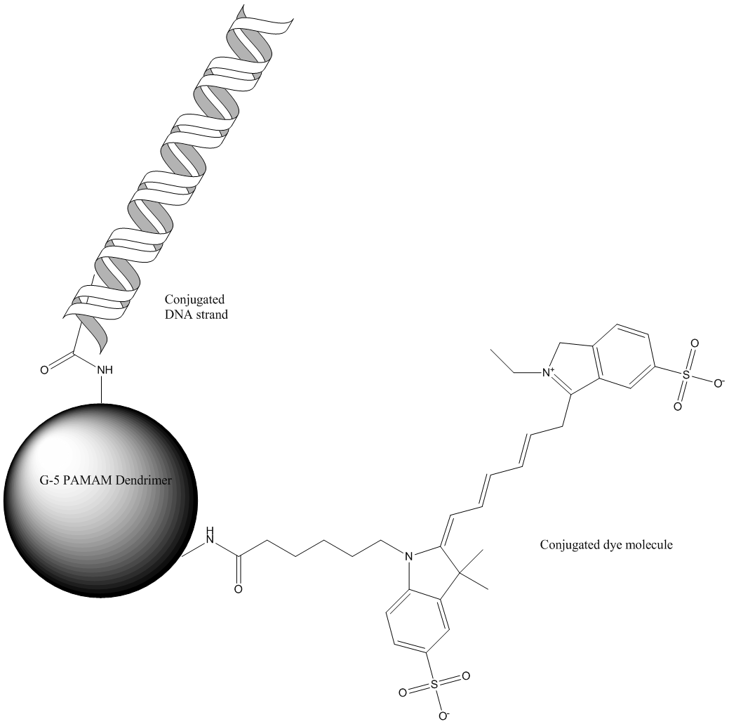 Cartoon of DNA and dye molecule conjugated to a PAMAM dendrimer.